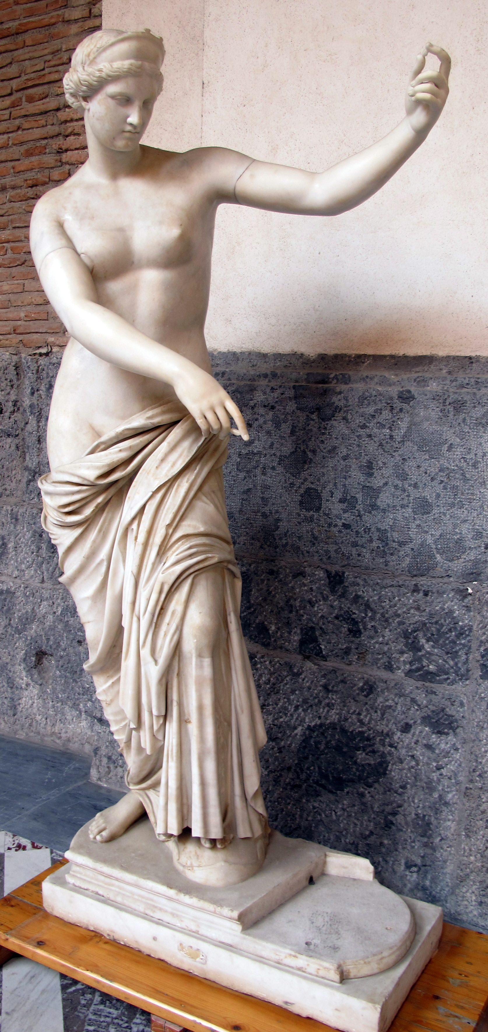 Ancient Roman statues in the Museo Archeologico (Naples)